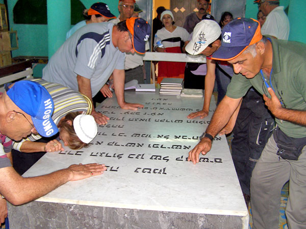 Rabbi Shmuel Abuhatssira grave on the edge of the Sahara, Morocco